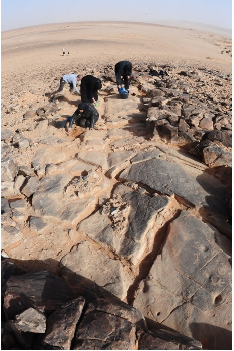 جانب من أعمال الفريق الاثري في شمال الغاط